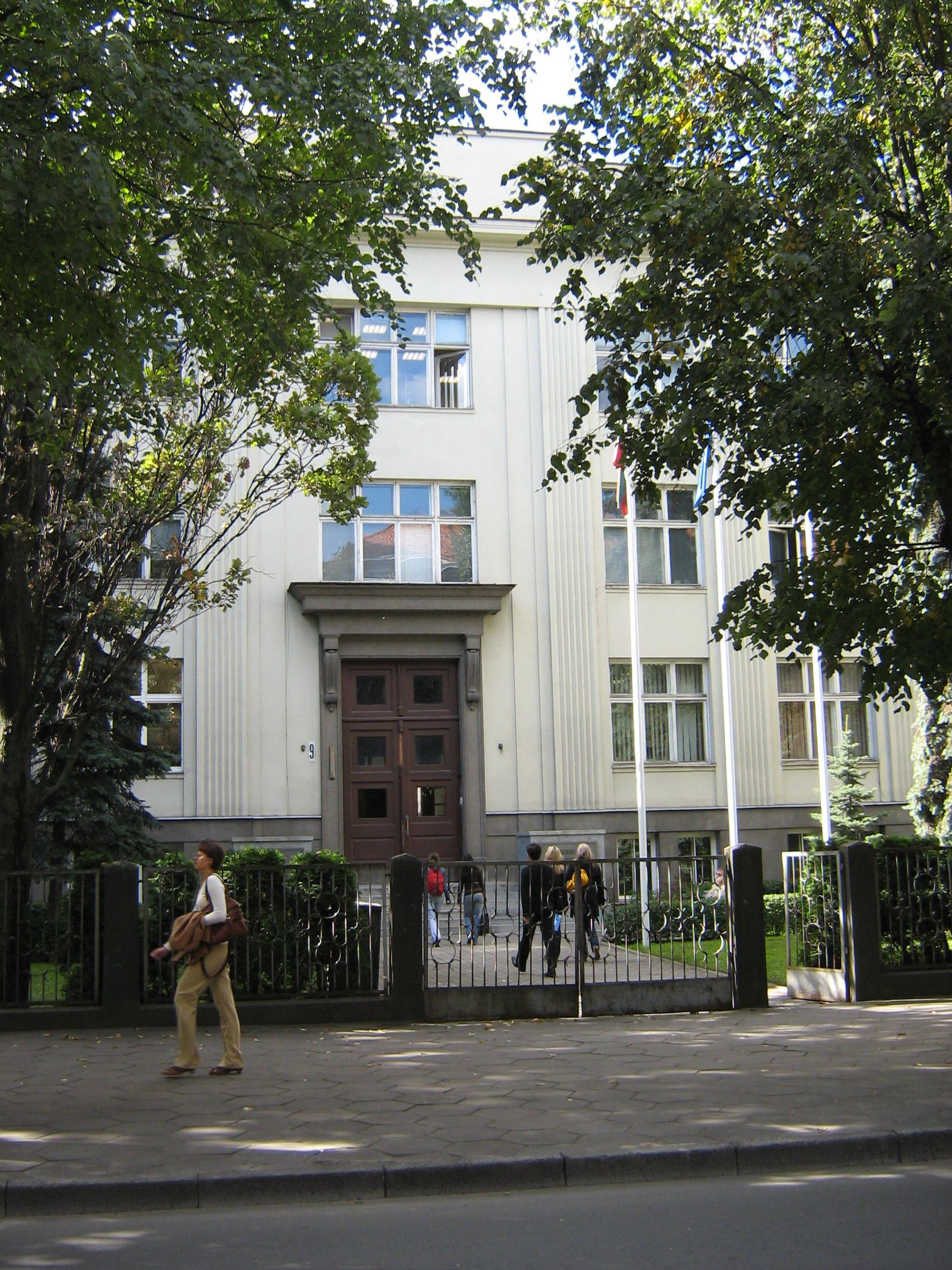 Headquarters of Lithuanian University of Health Sciences, Kaunas